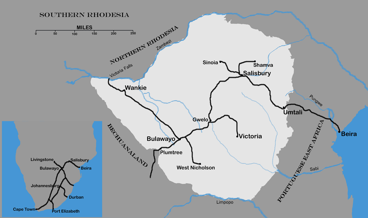 Map of Southern Rhodesia c1927 showing railway lines and rivers. Derived from British Geographical Section General Staff Map of Africa, reproduced in Tawse-Jollie, Ethel (1927) "Southern Rhodesia: A White Man's Country in the Tropics". Geographical Review 17 (1) p. 90.